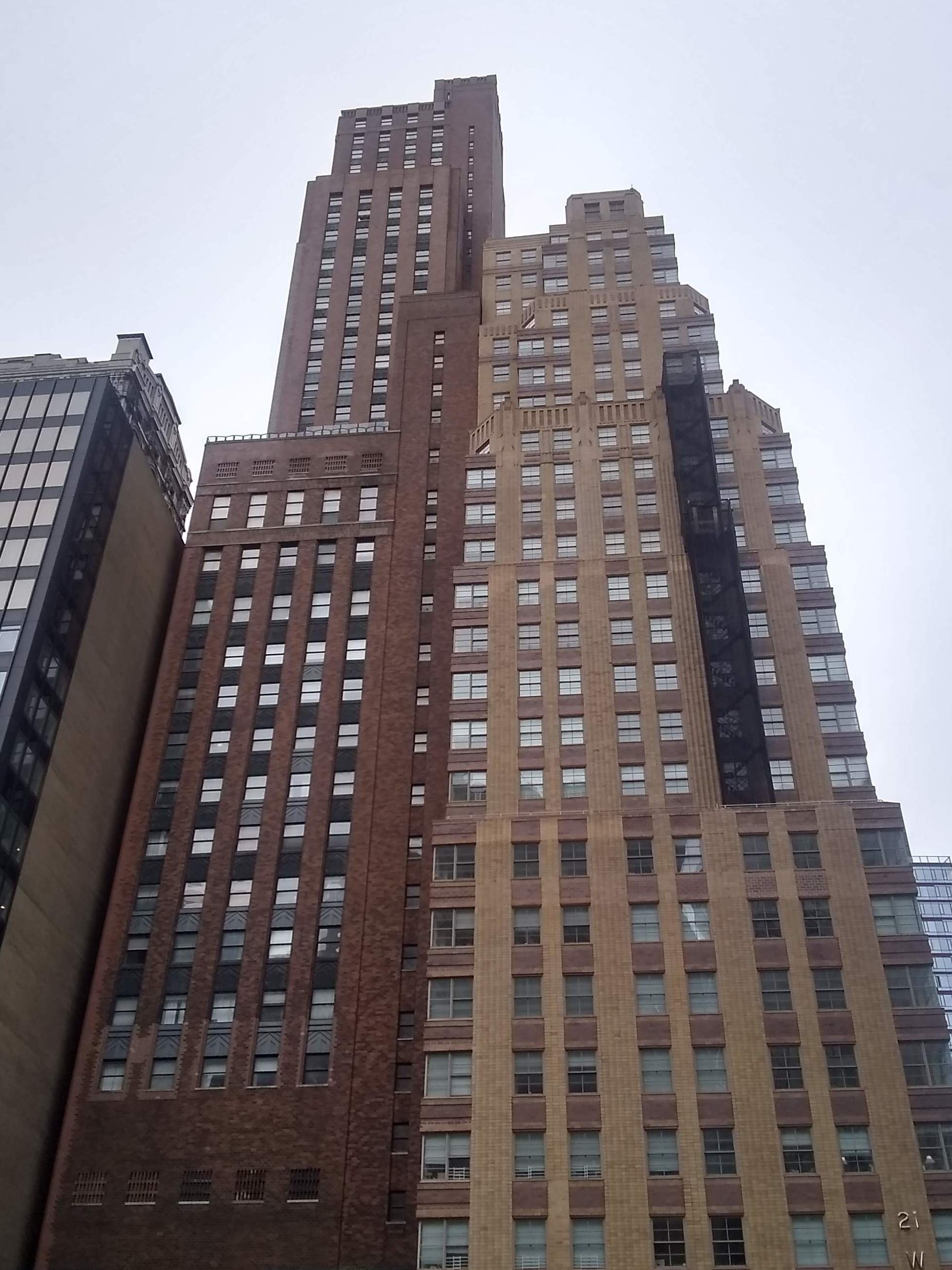 Buildings on Washington Street between Battery Place and Morris Street in Manhattan, New York City